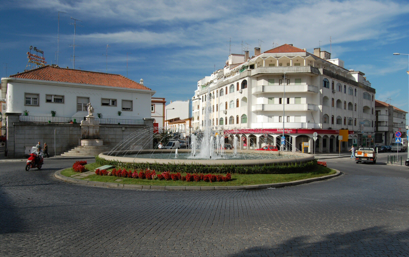 Portalegre_Municipality